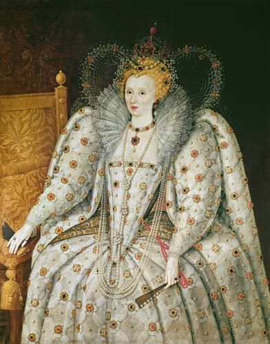 Portrait of Elizabeth I of England, now in the Palazzo Pitti, Florence. A variant of the Ditchley portrait.